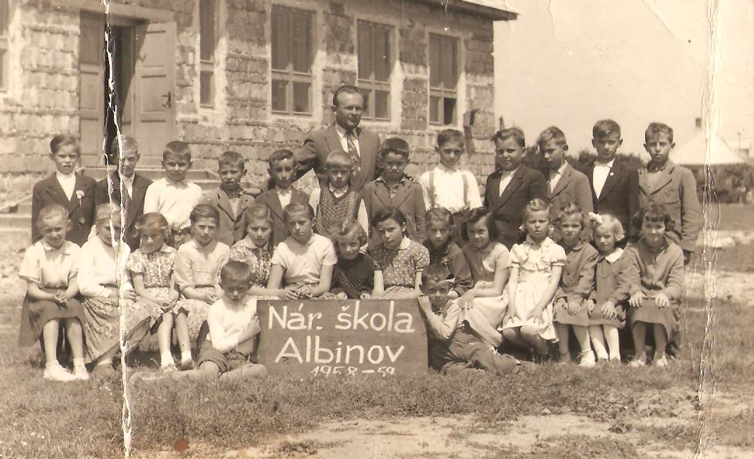 Elementary school Albinov (now borough of Sečovce) during school year 1958 – 1959.